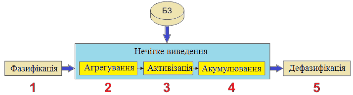 Етапи нечіткого виведення